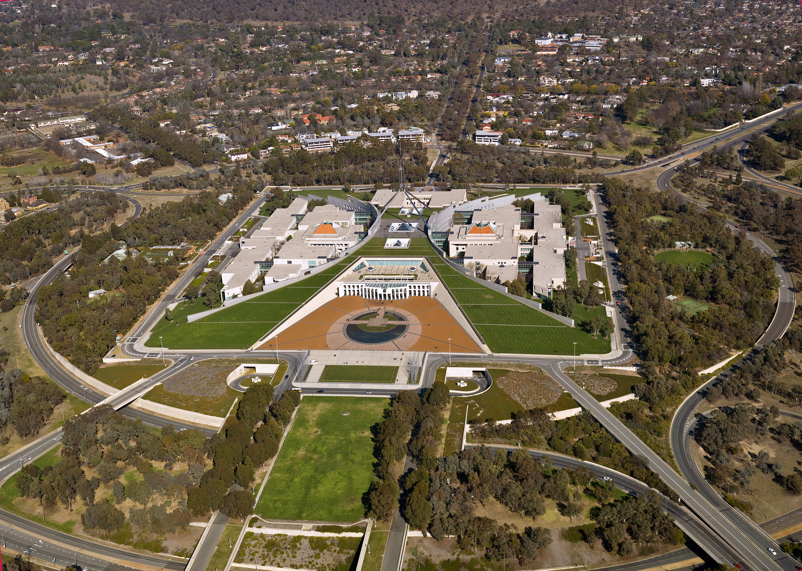 View of Parliament House, the seat of federal parliament in Australia, looking south-west.